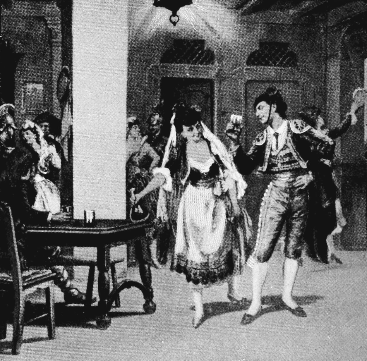 Carmen and Escamillo at the Inn - Act II Title: The Victrola book of the opera : stories of one hundred and twenty operas with seven-hundred illustrations and descriptions of twelve-hundred Victor opera records Year: 1917 (1910s) Authors: Victor Talking Machine Company Rous, Samuel Holland Subjects: Operas Publisher: Camden, N.J. : Victor Talking Machine Co. Text Appearing Before Image: om her to thee, I bring a letter, And some money also; Because a dragoon has not too much. And, besides that—Jose: Something else?Micaela: Yes, I will tell you. What she has given, I Your mother with me And then, lovingly, she kissed me. My daughter, said she, to the city go: When arrived in Seville, Thou wilt seek out Jose, my beloved son; Tell him that his mother, By night, by day, thinks of her Jose: For him she always prays and hopes, And pardons him, and loves him ever. And then this kiss, kind one, Thou wilt to him give for me.Jose: A kiss from my mother?Micaela: To her son. Jose, I give it to thee—as I promised. (Micaela stands on tip-toe and kisses Jose—a true mothers kiss.—Jose is moved andregards Micaela tenderly.)Jose: My home in yonder valley, My mother lovd shall I eer see? Ah fondly in my heart I cherishMemries so dear yet to me.Micaela: That one sweet hope, Twill strength and courage give thee. That yet again thou wilt thy home And thy dear mother once more see. Text Appearing After Image: CARMEN AND ESCAMILLO AT THE INN ACT Our pleasures double, shared by two!So just to keep me company,My beau Ill take along with me! A handsome lad—deuce take it all!—Three days ago I sent him off.But this new love, he loves me well;And him to choose my mind is bent. 58 VICTROLA BOOK OF THE OPERA-BIZETS CARMEN